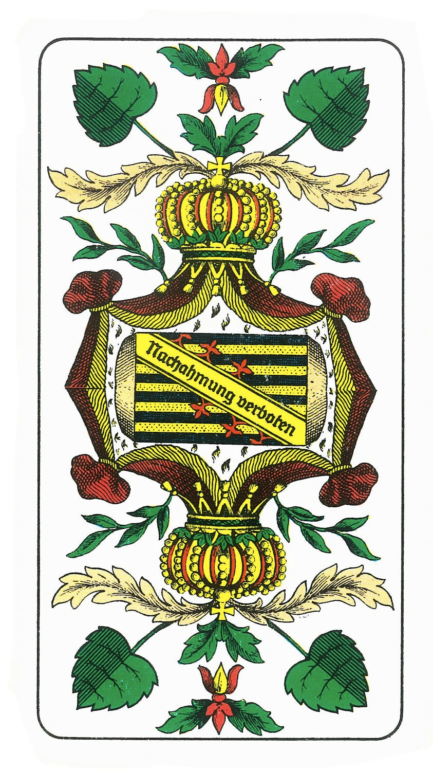 Daus (ace) of leaves, playing card from a German deck.